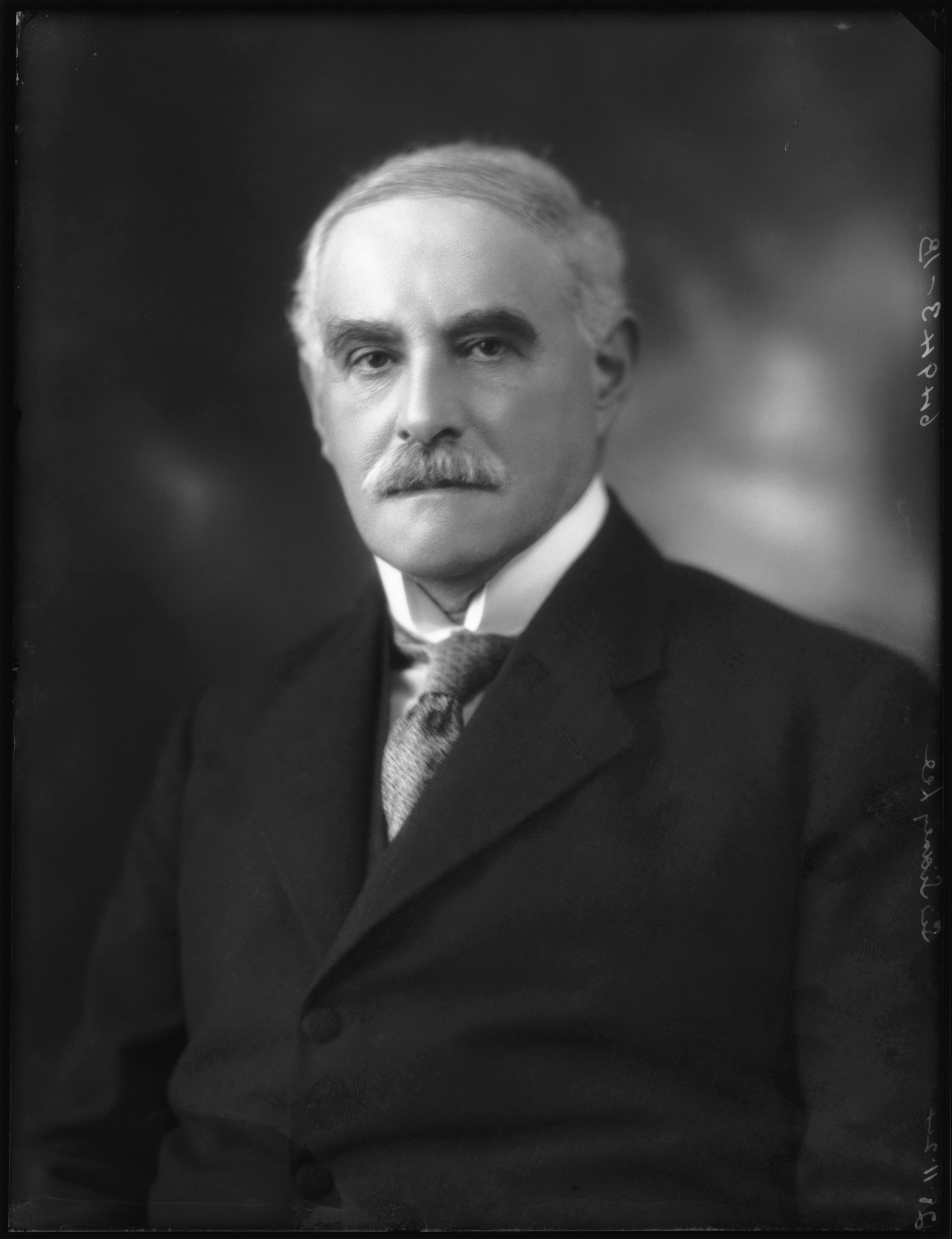 Depicted person: Sidney Lee – English biographer and critic